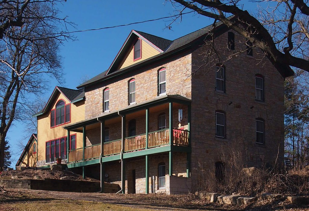 Farmhouse of the Charles Spangenberg Farmstead, 9431 Dale Rd., Woodbury, Minnesota, USA. Viewed from the northeast.